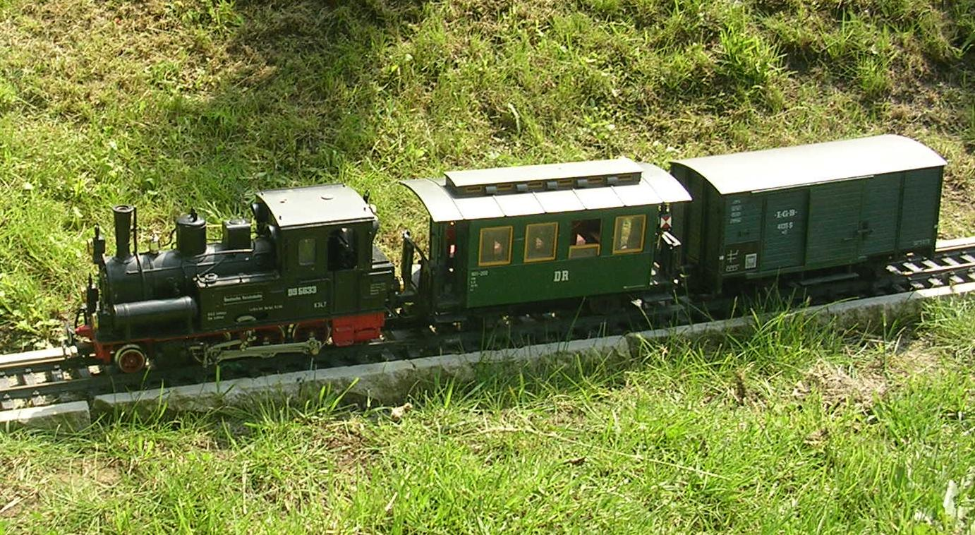 Little Saxon Switzerland is a park in Dorf Wehlen (Stadt Wehlen, Saxony, Germany) with models of buildings, nature und transport of Saxon Switzerland.